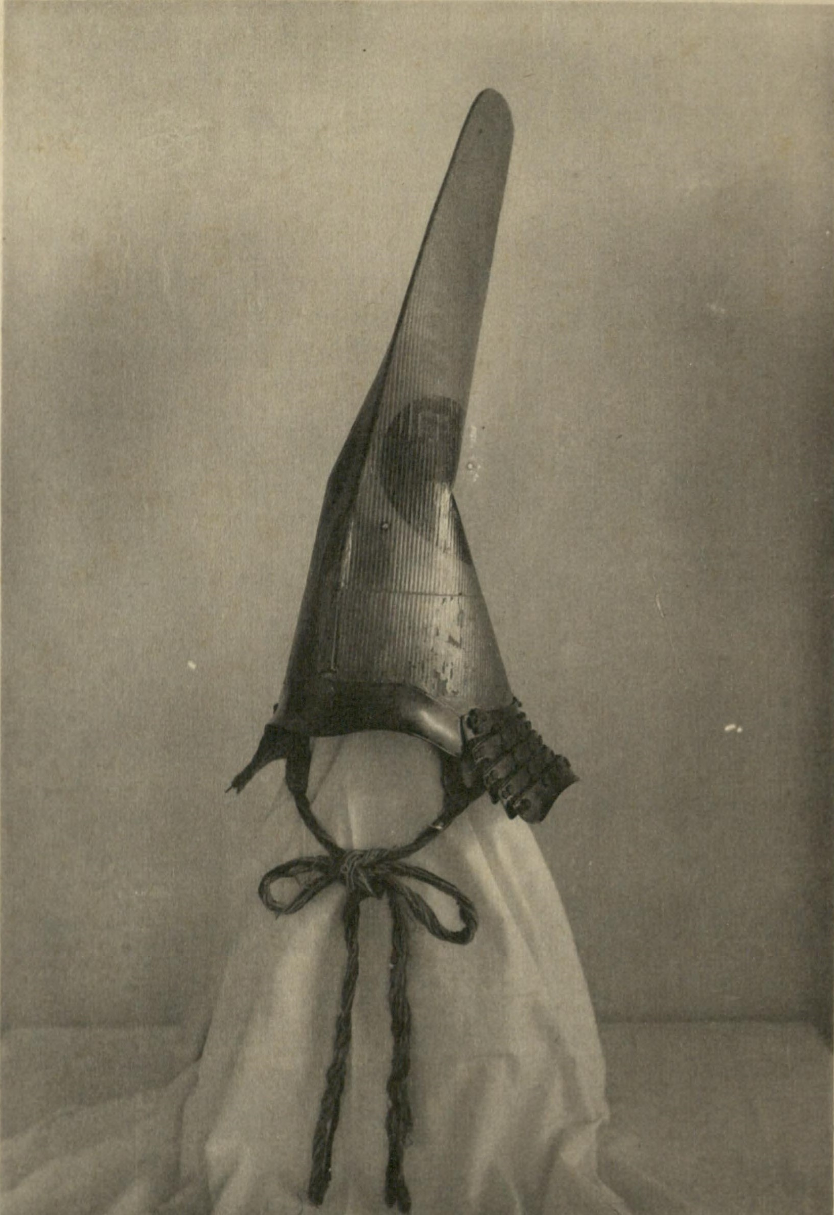 A naga eboshi kabuto of Kato Kiyomasa, the collection of Tokugawa Art Museum.